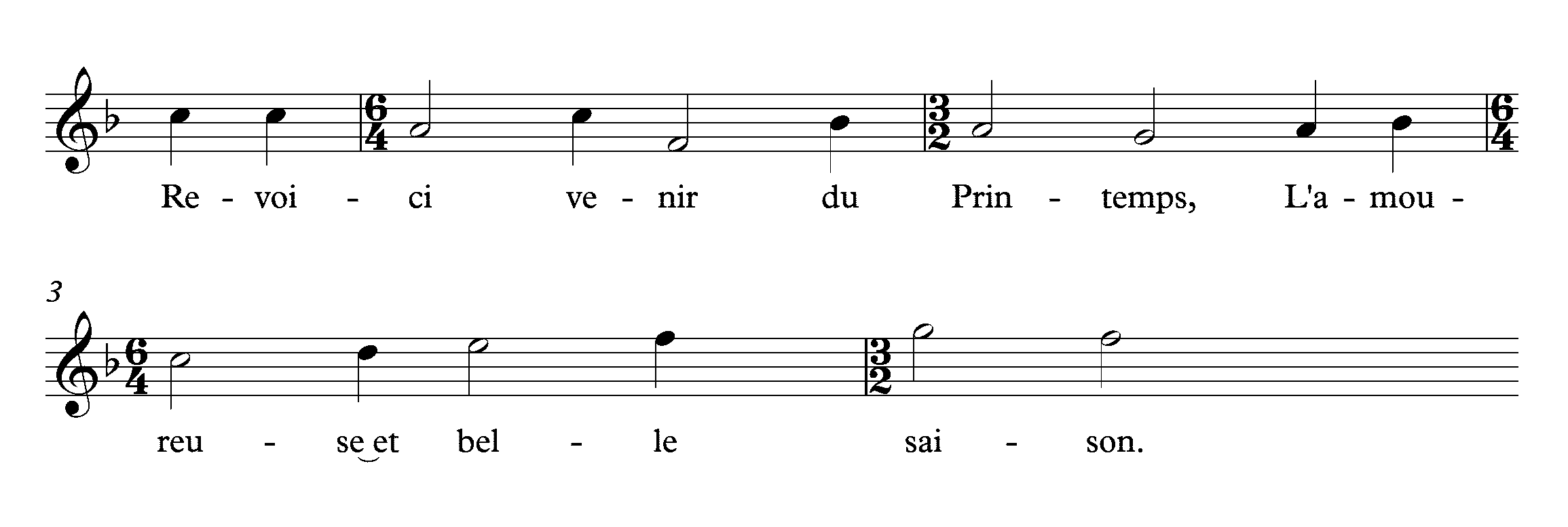 Claude LeJeune, 'reveci voir le Printemps', bars 1-4 of the upper vocal line